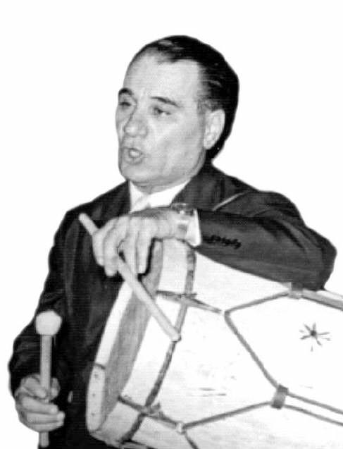 Luis Profili sings while accompanying with "bombo"